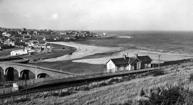 Banff Bridge Station and view NW to Banff Bay, Near to Banff, Aberdeenshire, Great Britain. NW view of station on long Inveramsay - Macduff branch, closed to Goods 1/8/61 (two months previously), but to passengers 1/10/51. So the former station is remarkably well-preserved and no doubt lived in, having seen no passengers for 10 years.